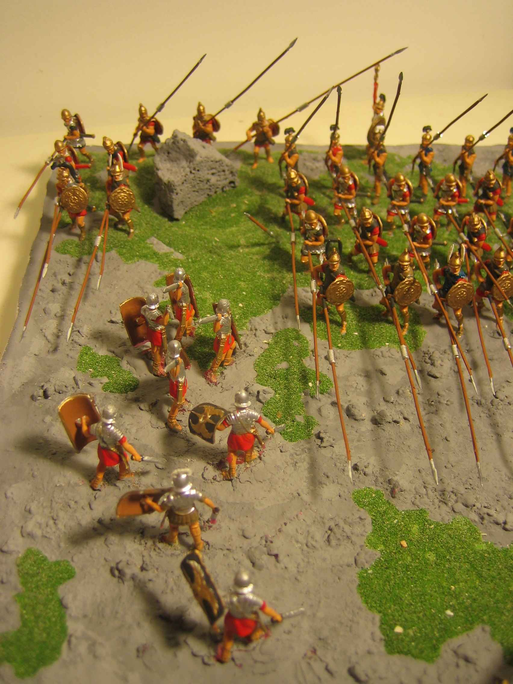 Diorama of Pydna battle